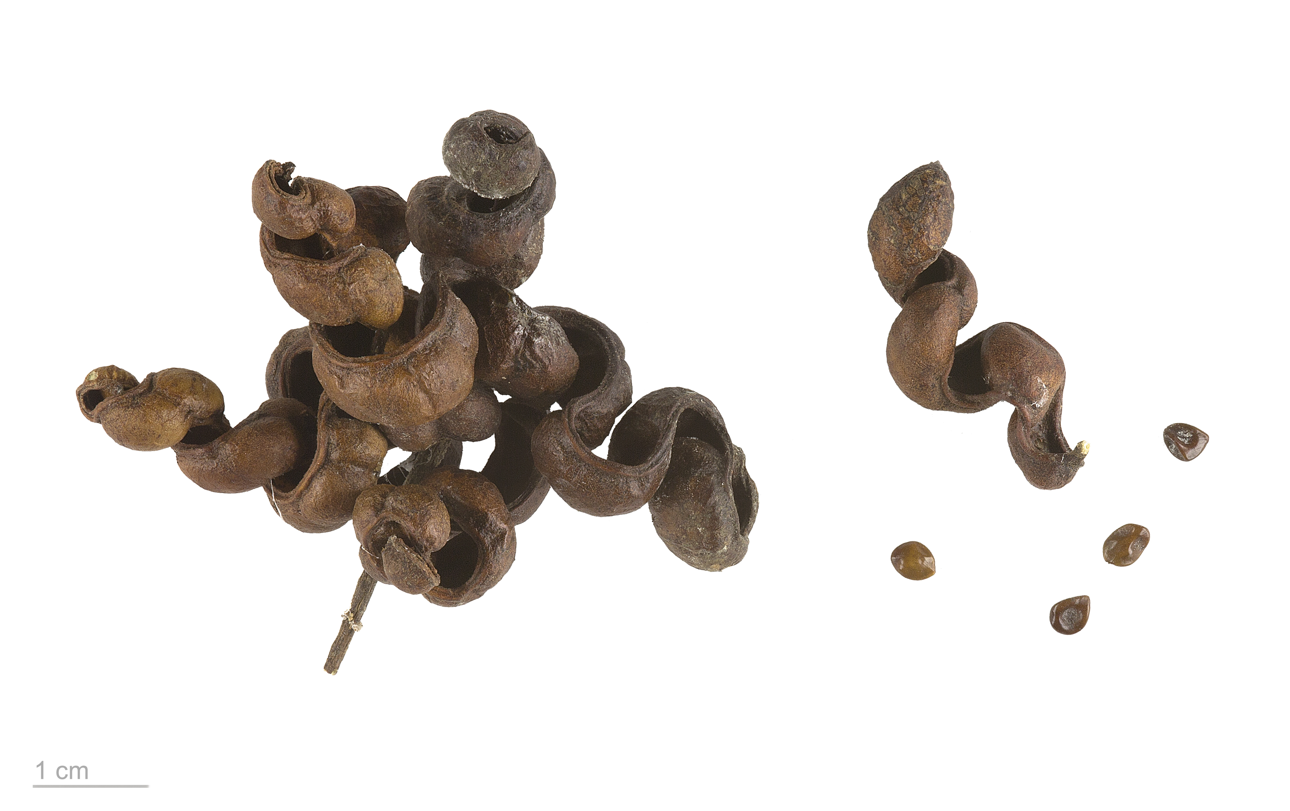 Dichrostachys cinerea, sicklebush, seeds